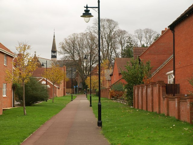 Path at Cotford St Luke At the end on the left is the chapel of St Luke, which gives the development its name, and which is the main structure remaining from Tone Vale Hospital. "1897-98 by Giles, Gough & Trollope who also designed the hospital" , and distinguished by a flèche. Seen from Graham Way.